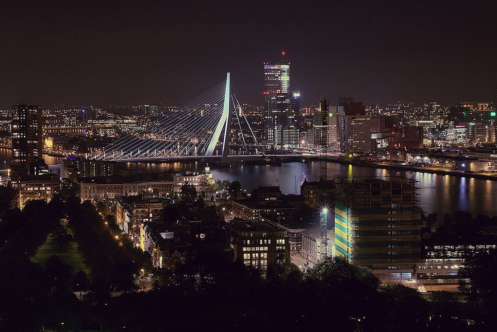 Night view of Rotterdam towards the Erasmus bridge from top of Euromast